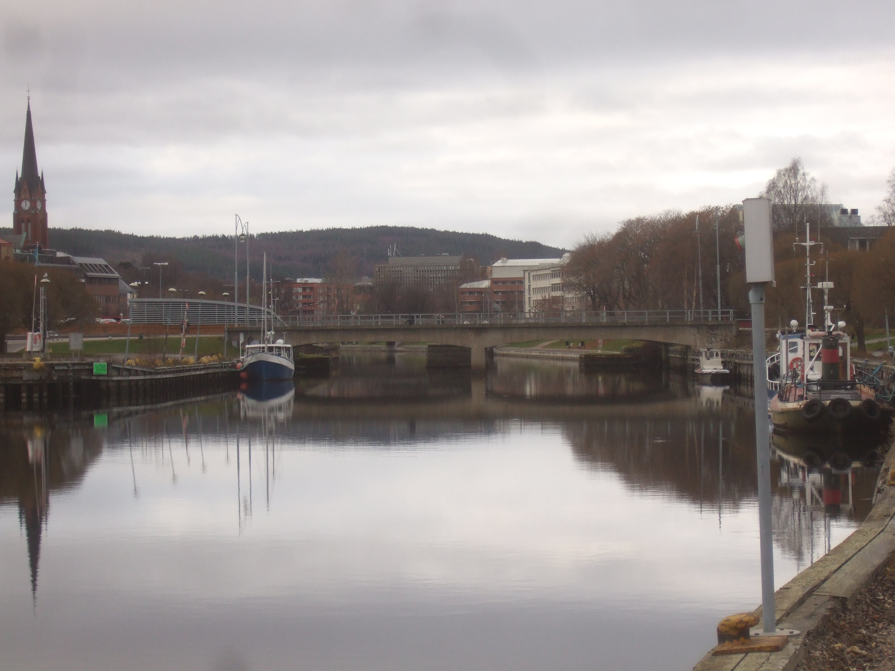 The mouth of Selångersån river in Sundsvall, viewed upstream towards west. In the center the bridge Tivolibron is obscured by the walkway bridge. The church Gustav Adolfs kyrka is visible to the far left.